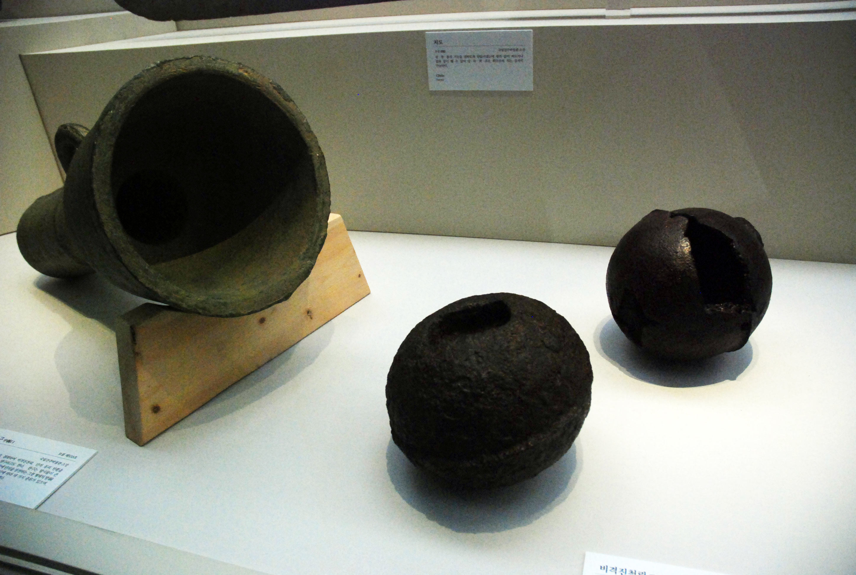 Beeguekjinchoenroe is a kind of time bomb with small cannon used in 1592, Japanese Invasion.